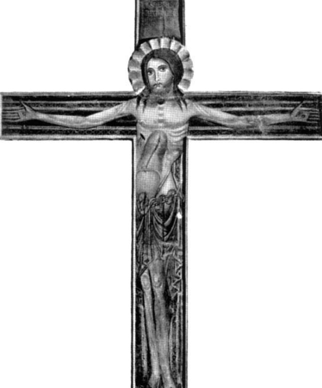 Marco Berlinghieri Panted Cross. 1245-55. (265x212cm) Santa Maria Assunta, Villa Basilica